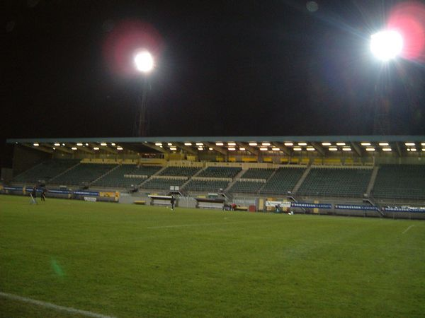 Zuiderpark stadion